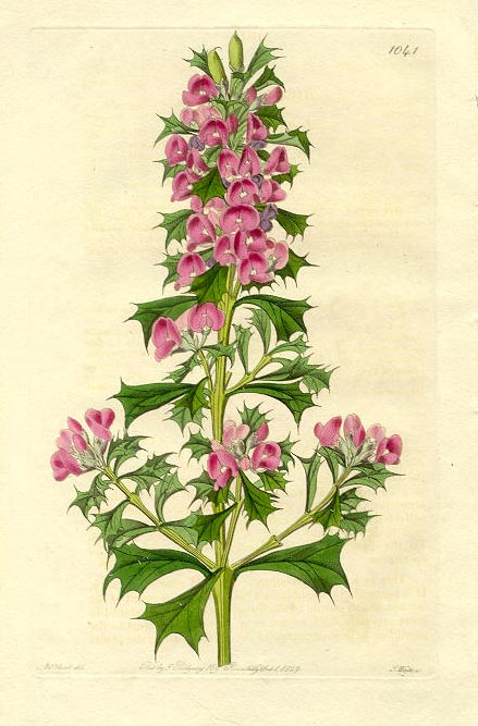 Copper plate engraving with superb original hand color entitled Wedge-leaved Mirbelia Dilatata, Plate 1041, original size 205mm x 125mm (8" x 5")